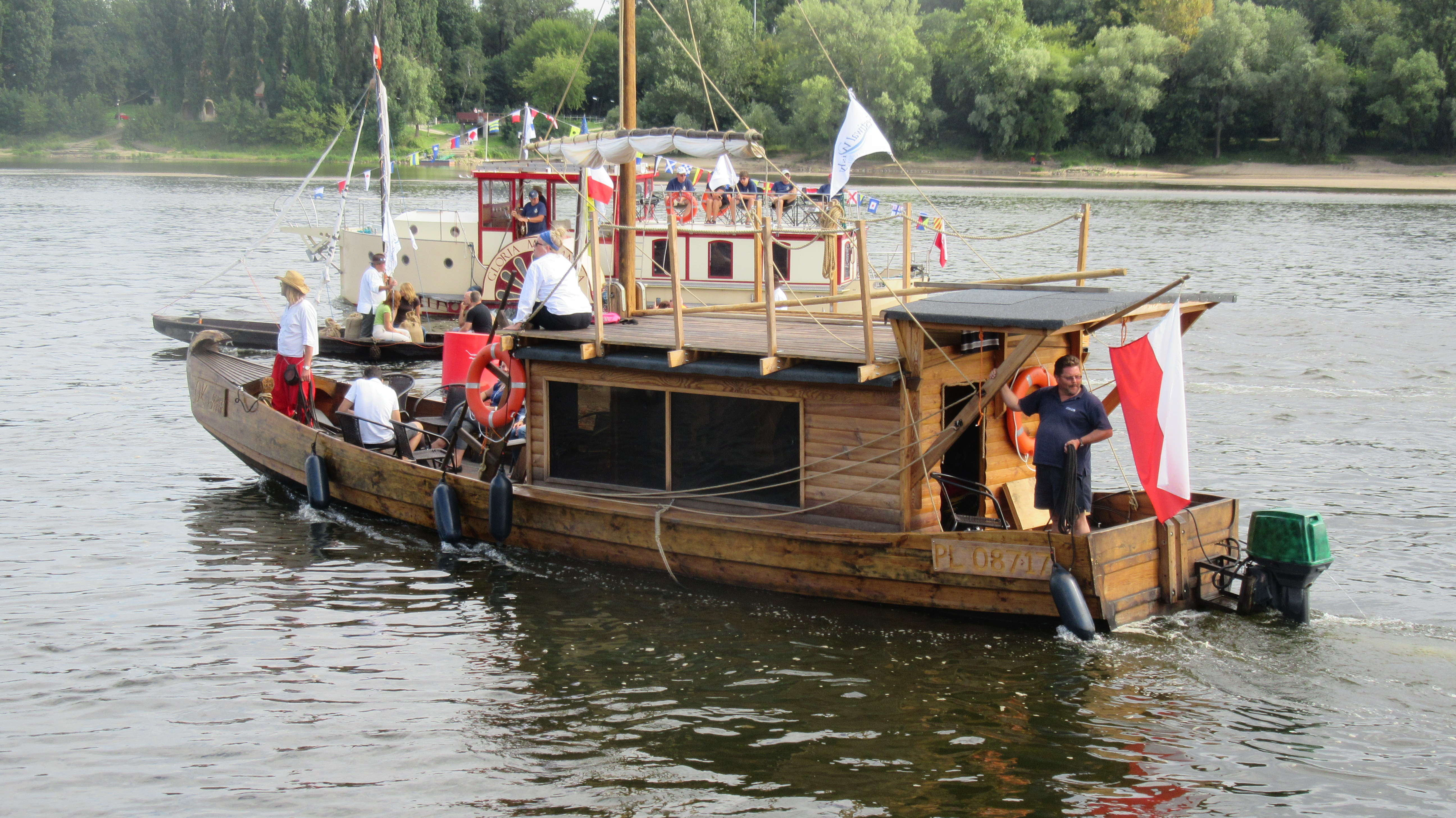 Vistula Festival in Toruń, Poland. 2017. Replicas of boats used on Vistula in XV-XIX century.